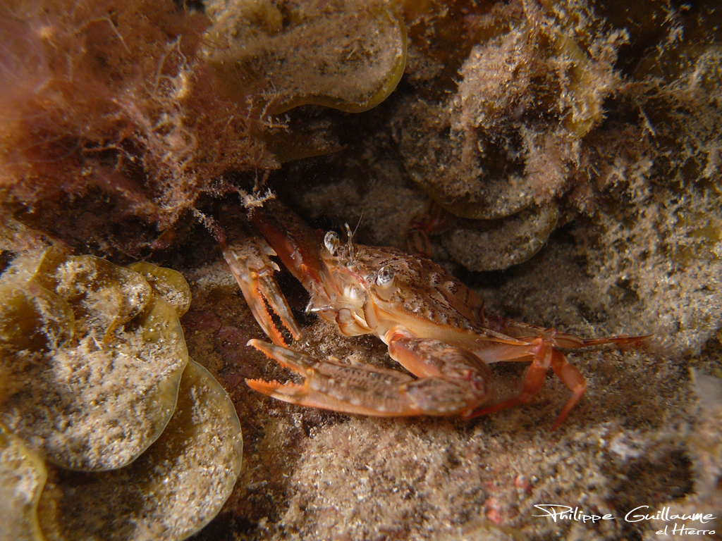 Portunus hastatus - Lancer swimming crab / Cangrejo cornudo / Etrille nageuse, el Hierro.